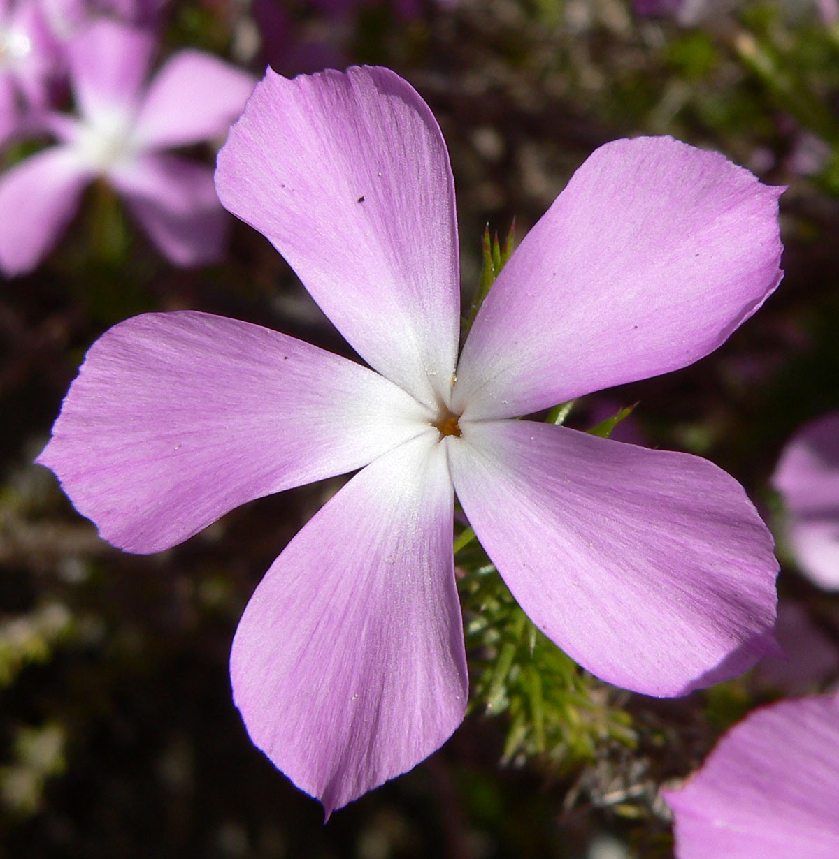 Photo of Leptodactylon californicum at the Regional Parks Botanic Garden, Berkeley, California